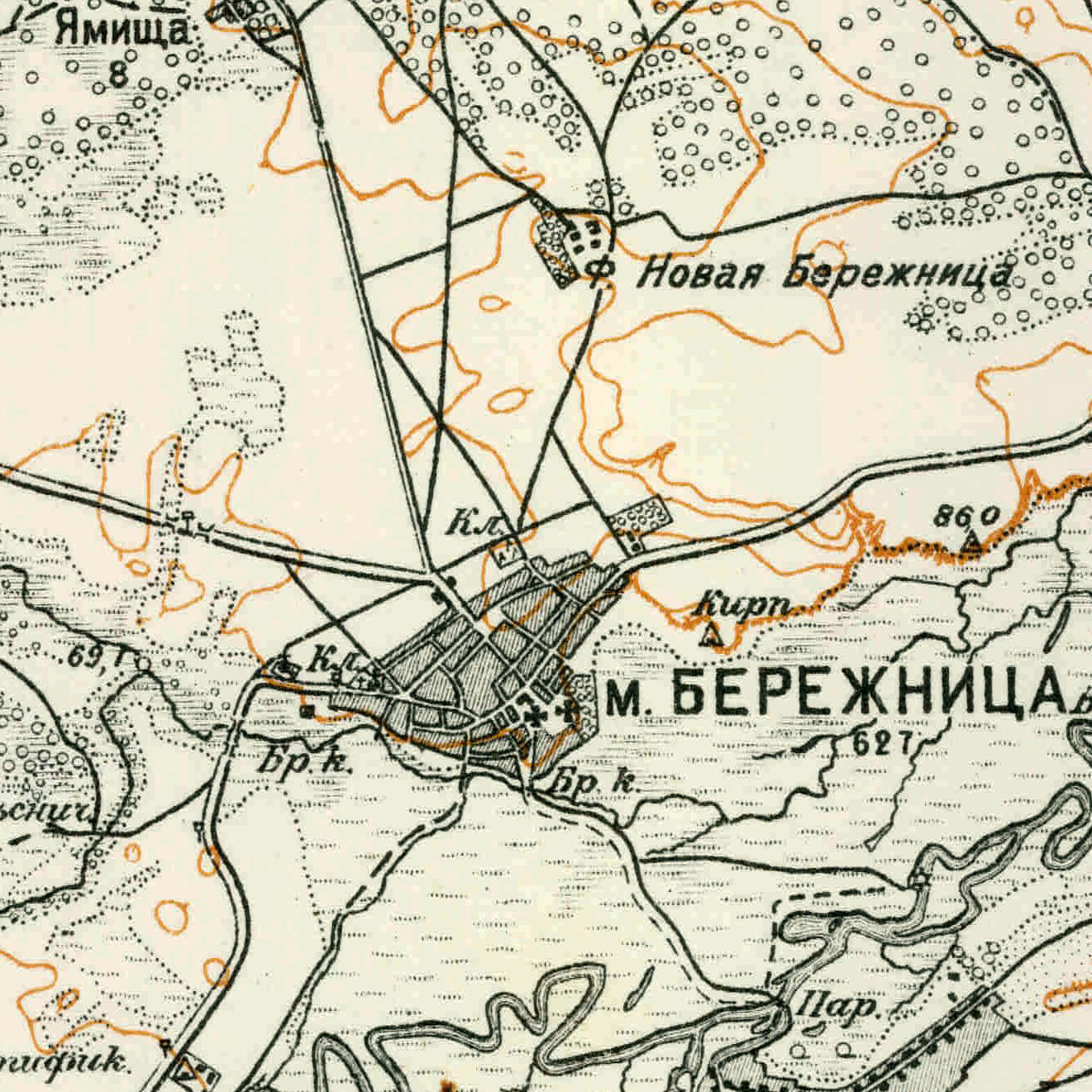 Berezhnytsia on the map "Новая Топографическая Карта Западной России", XXVI 21, 1915.